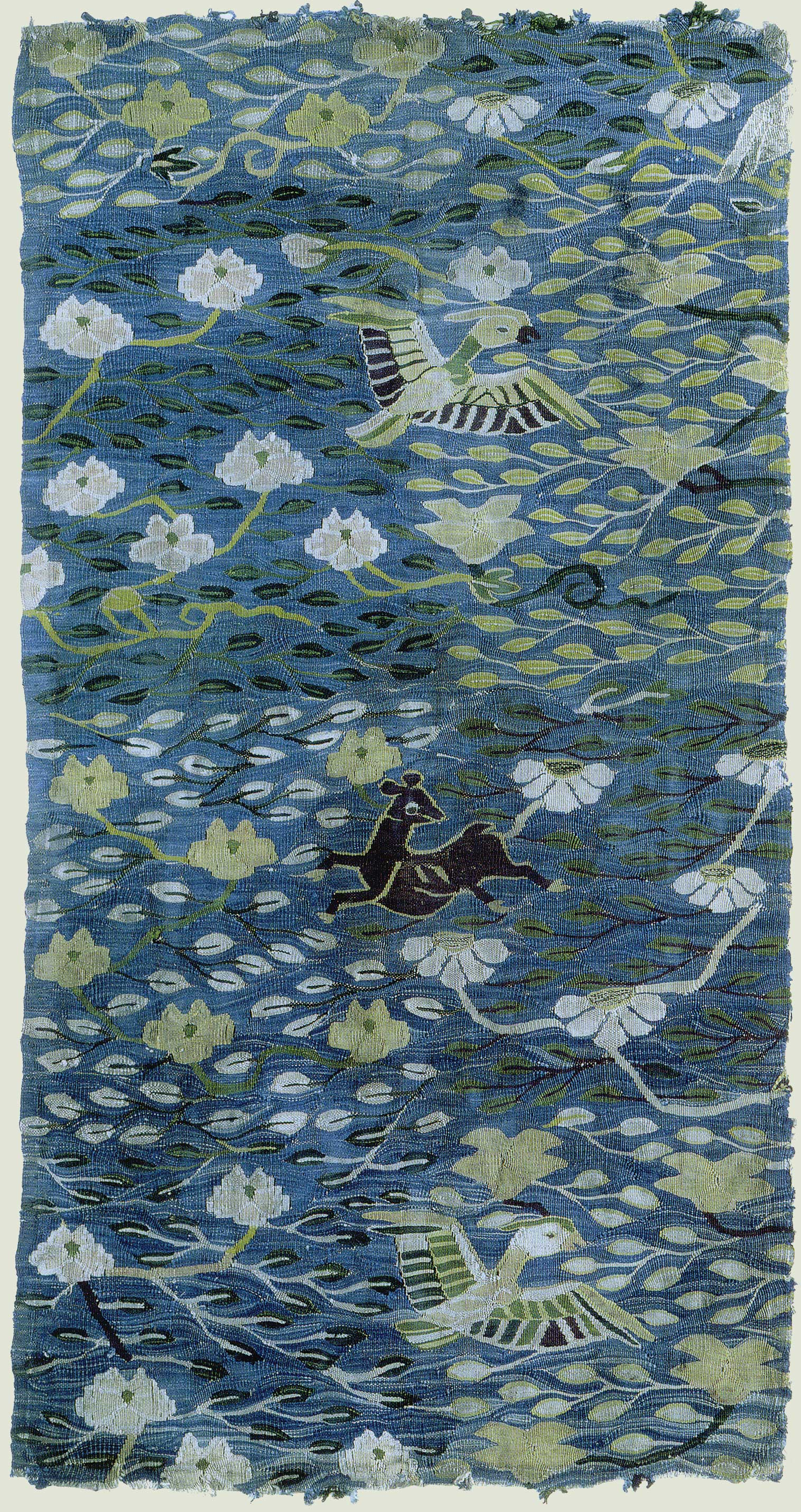 Tapestry, China, Northern Song dynasty (960-1025). Height 53 cm, width 27.5 cm. Musée national des arts asiatiques - Guimet, Paris, Inv. no. MA 5964